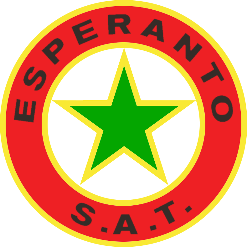 The emblem of the Sennacieca Asocio Tutmonda consists of a green star (or: la Verda Stelo, symbol of the Esperanto-language) with a golden border. Around the star is a red circular band, with golden borders on both sides of the band. Within the red band black letters read "ESPERANTO" and "S.A.T."